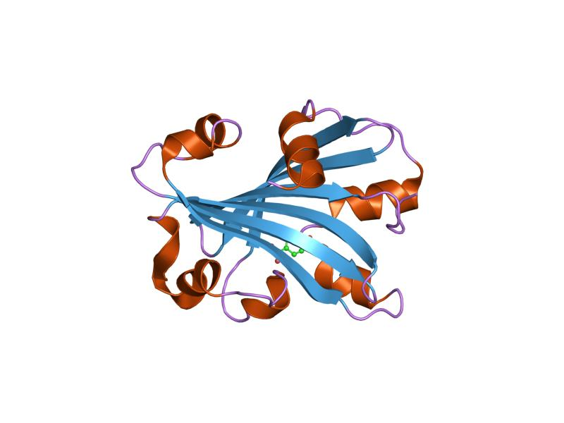 Cartoon representation of the molecular structure of protein registered with 1tt8 code.